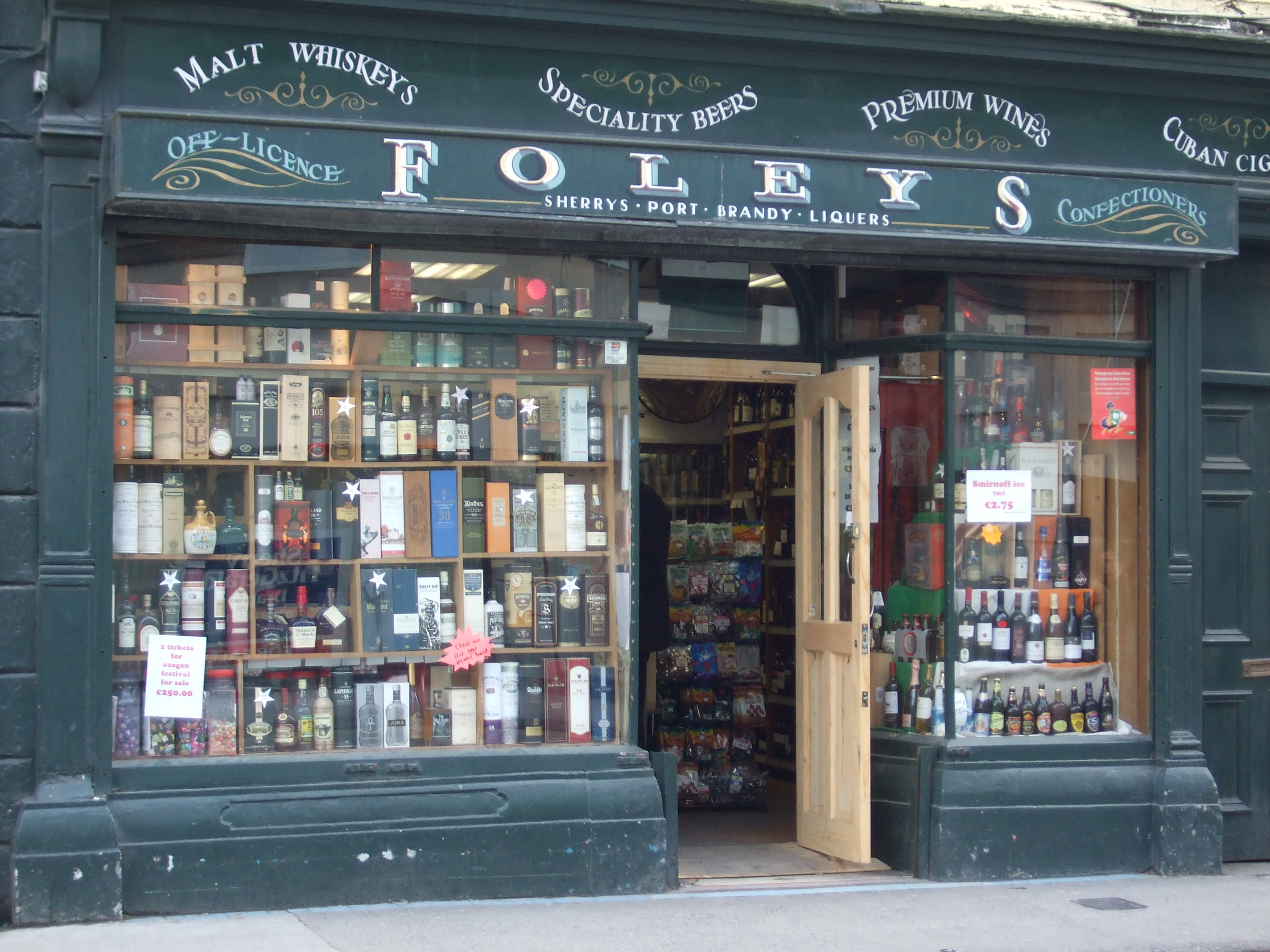 Foley's Off Licence, next door to Foley's public house, Sligo, western Ireland.